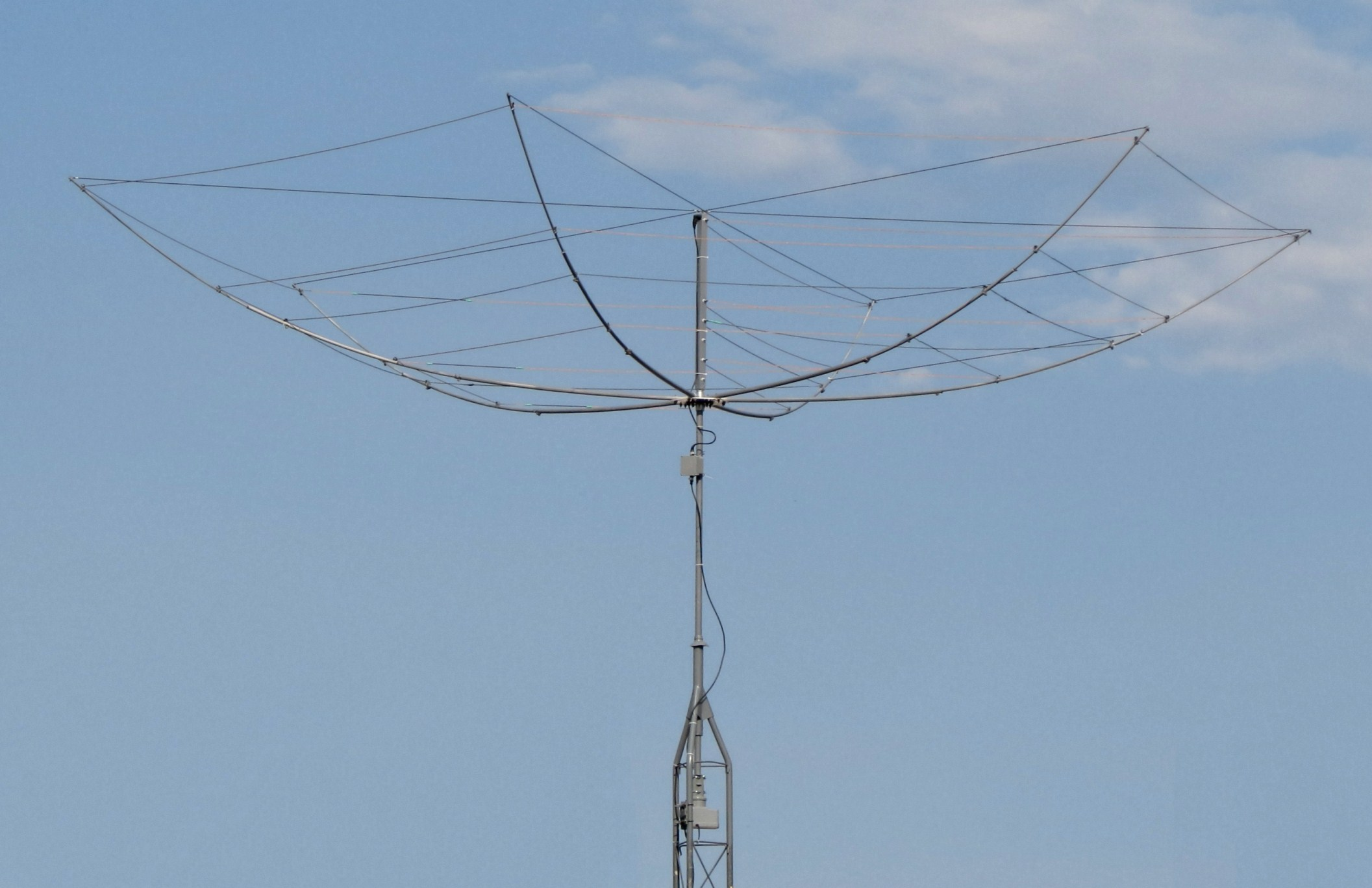 Hexbeam antenna on a ham radio station, Loveland, Colorado, August 2012.